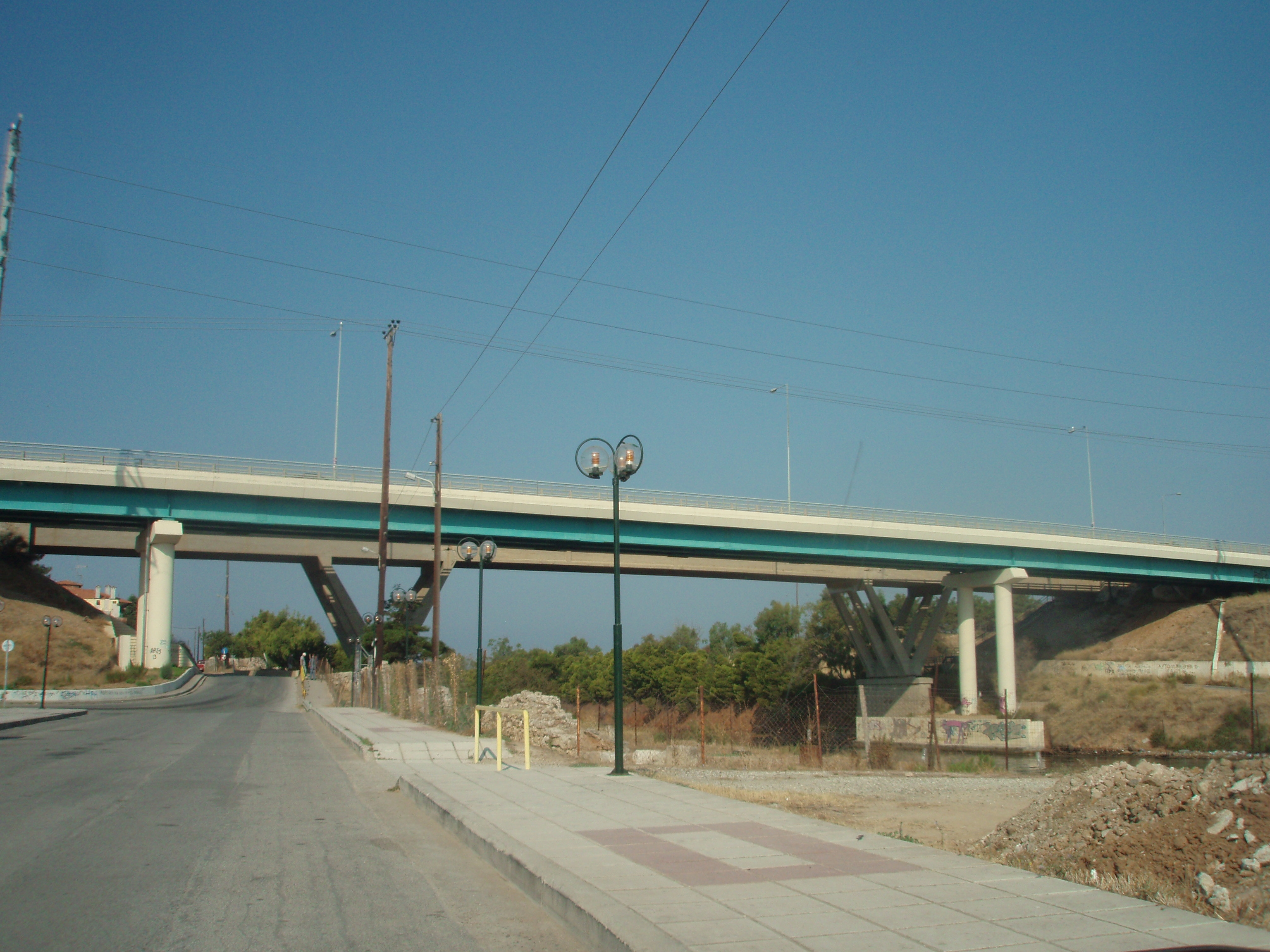 Road bridges over the Potidea channel, Kassandra peninsula isthmus, Halkidiki|Chalkidiki prefecture, Greece.